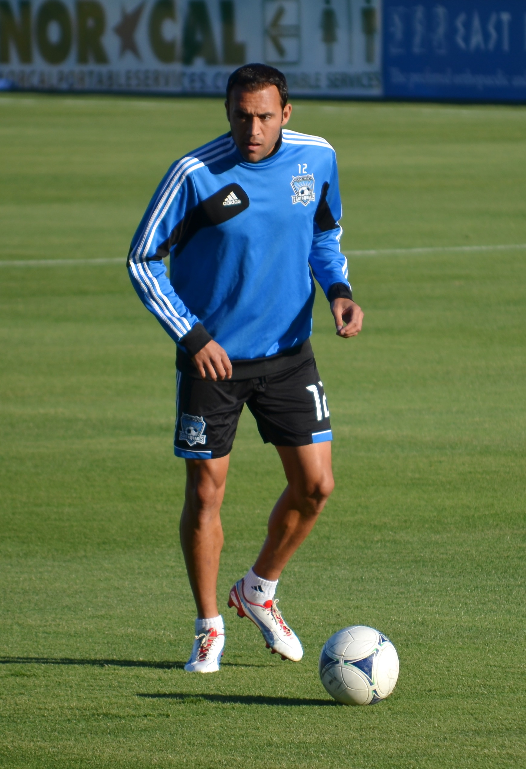 Ramiro Corrales of the San Jose Earthquakes warming up at Buck Shaw stadium on 28 July 2012.